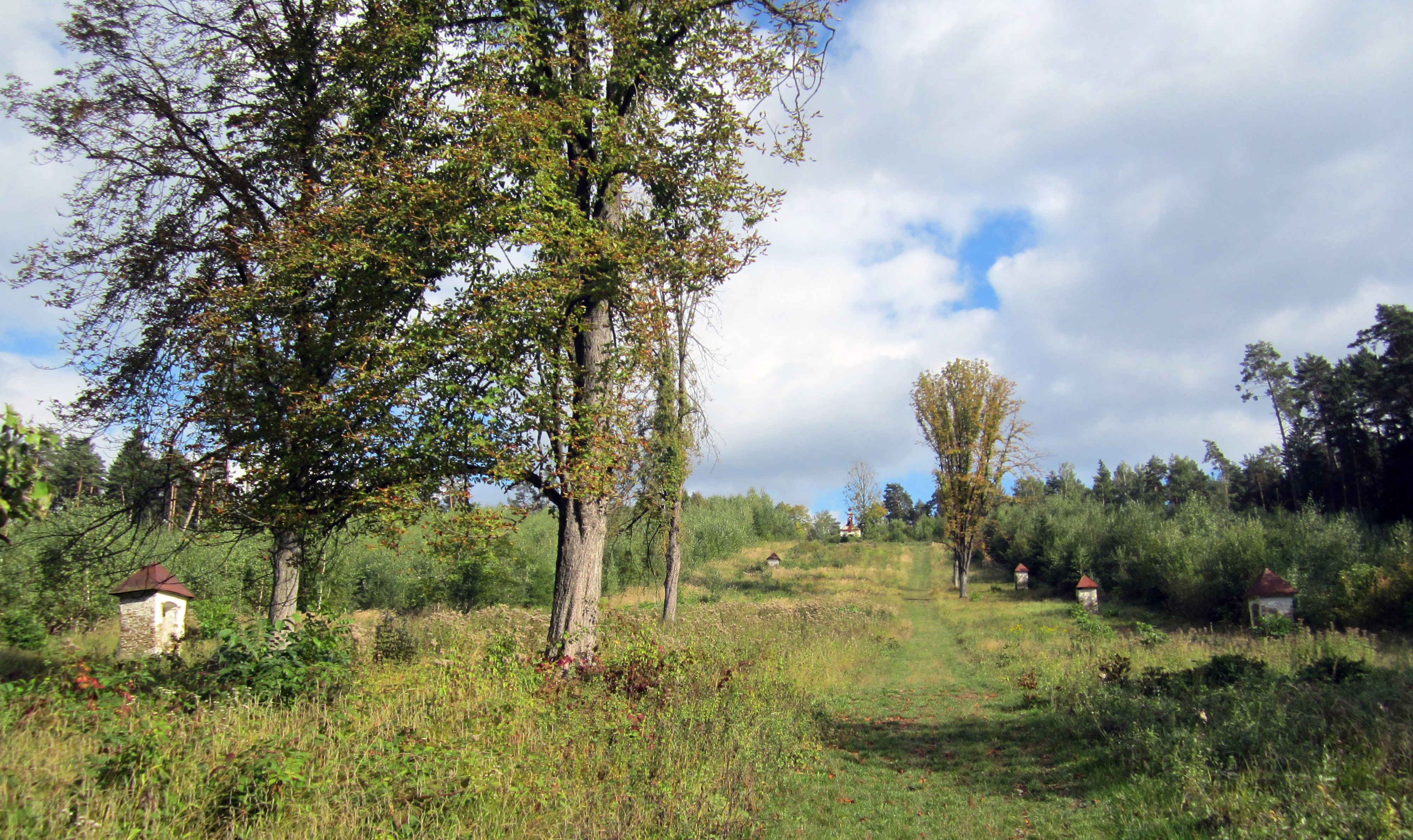 View of Calvary in Považská Bystrica